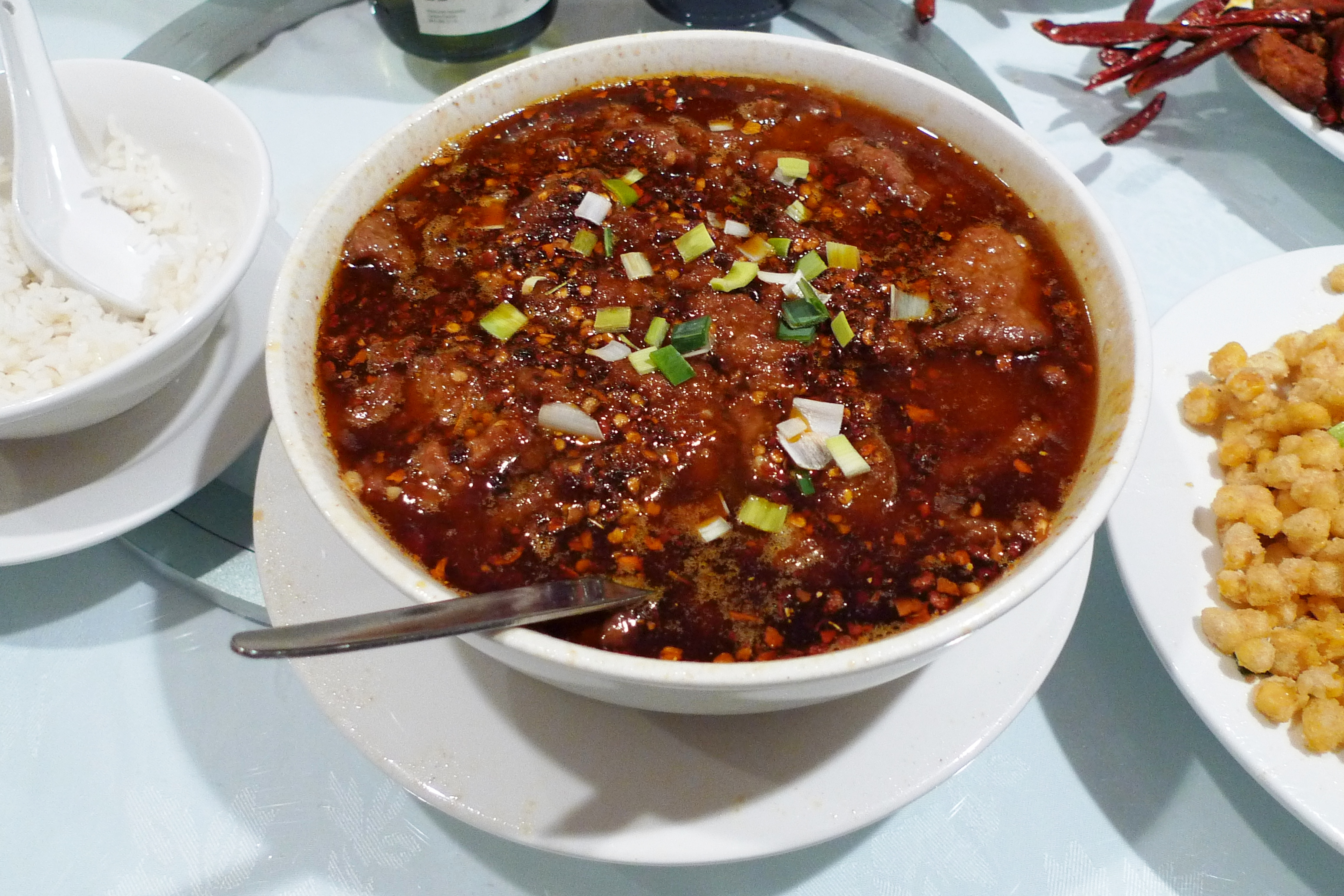 Spicy beef in a pot with chillies, aka water-boiled beef or shui zhu niu rou. Decent. At Sichuan Restaurant, Churchfield Road.